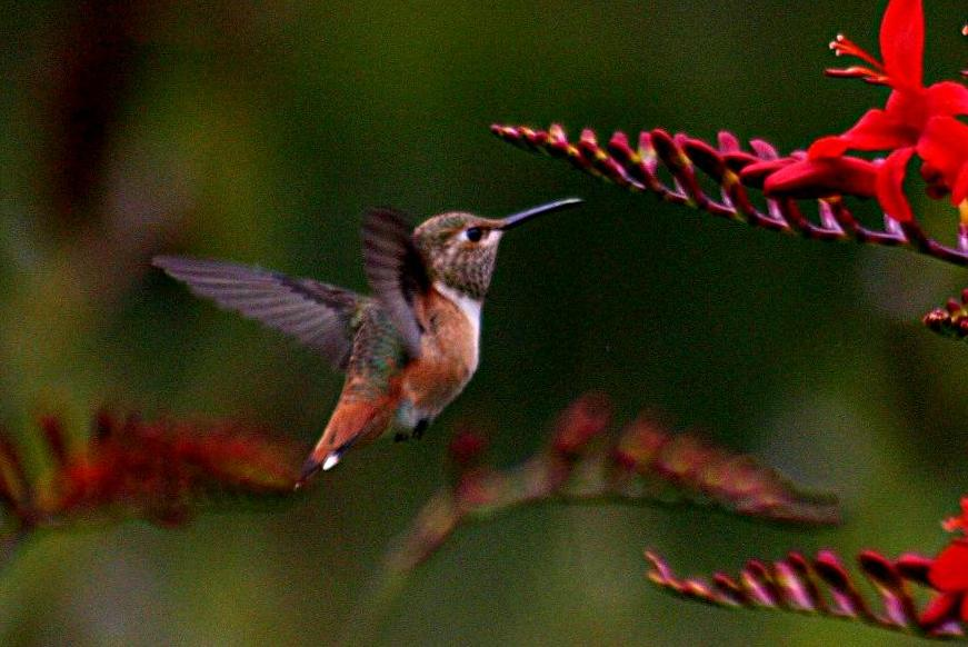 Hummingbird.The image was taken in San Francisco